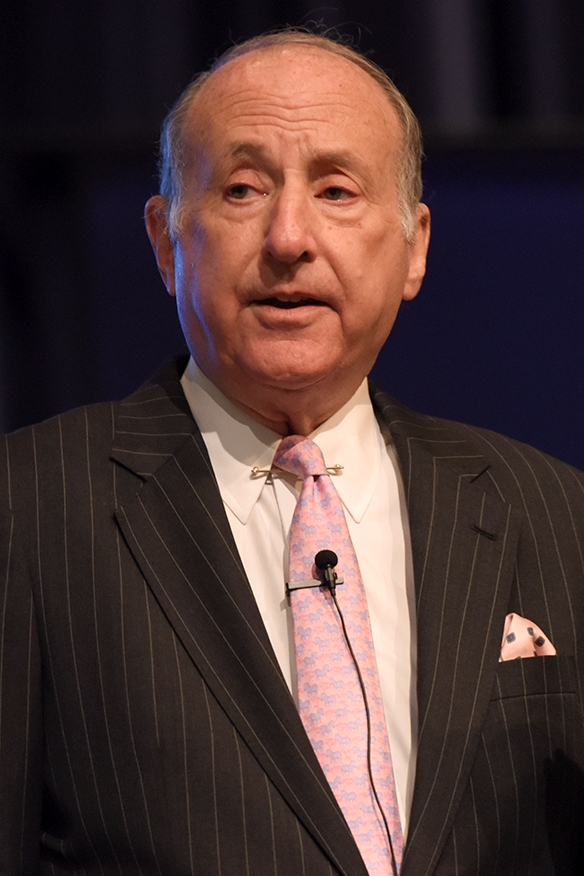 Harlan K. Ullman